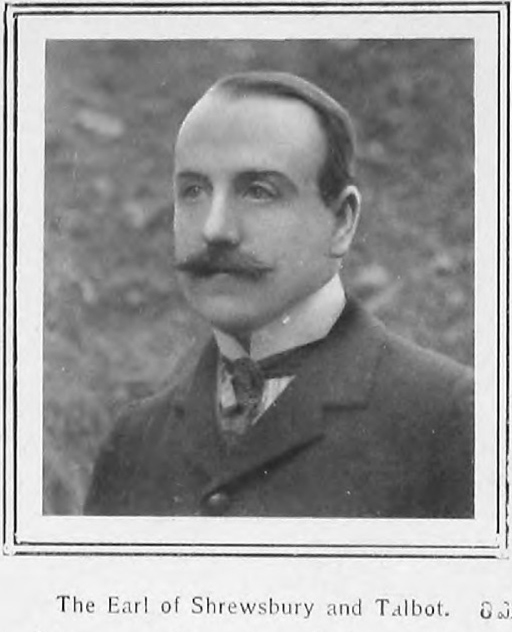 Portrait of Charles Chetwynd-Talbot, Earl of Shrewsbury and Talbot, founder of London motor manufacturer Clément-Talbot